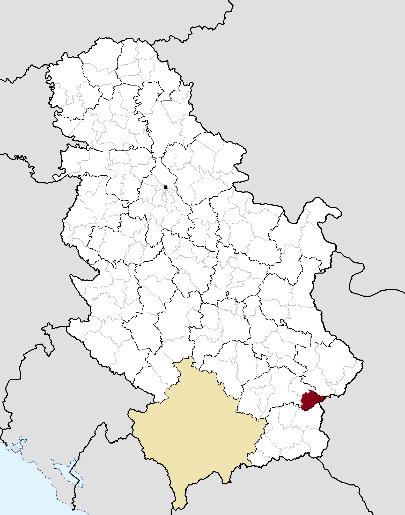 Municipal location in Serbia